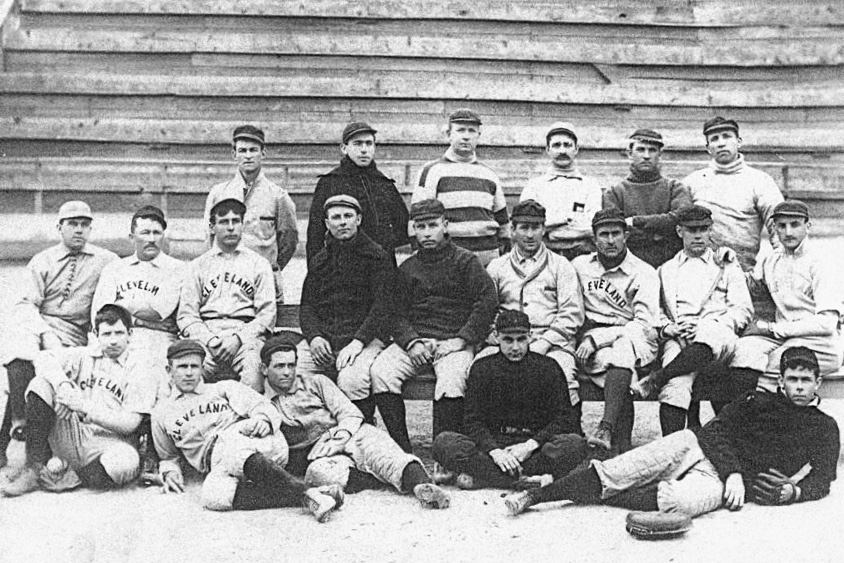 1898 Cleveland Spiders baseball teamTop row, left to right: Sport McAllister, Emmet Heidrick, Cy Young, George Bristow, Jesse Burkett, Chief ZimmerMiddle row, left to right: Stengel, Ed McKean, Ossee Schreckengost, Jack O'Connor, Patsy Tebeau, Cupid Childs, Zeke Wilson, Harry Blake, Bobby WallaceBottom row, left to right: Jack Powell, Lou Criger, Paschal, Long, Frank Bates